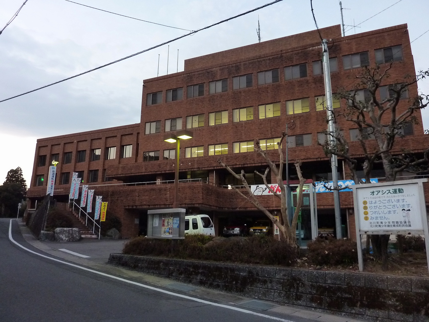 Nobeoka City Office Kitagawa Synthesis Office (Former Kitagawa Town Office - Miyazaki Prefecture, Japan)